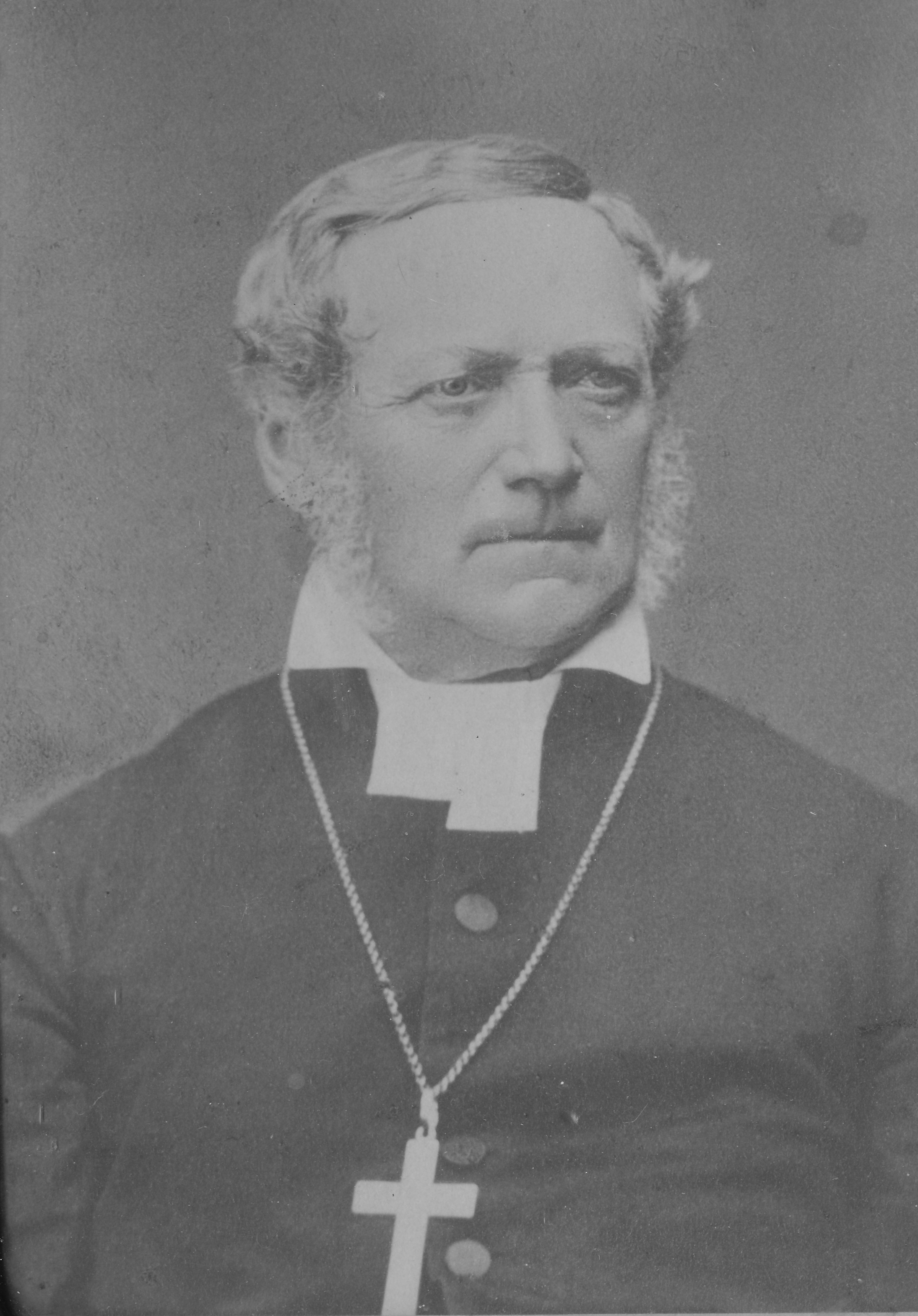 Thure Annerstedt